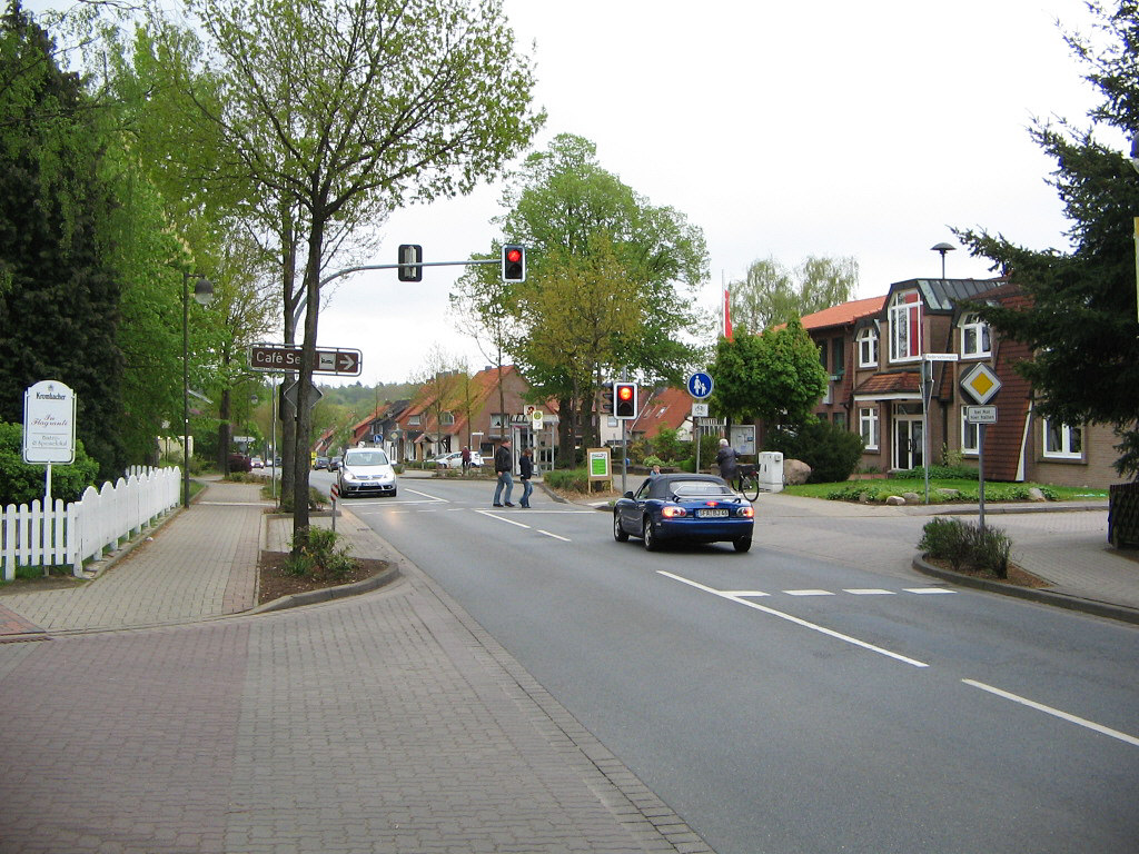 Bomlitz-Benefeld, Lower Saxony, Germany